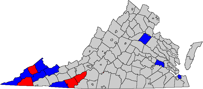 Map showing county choices of the 1970 Senate election in Virginia, between Independent Harry F. Byrd, Jr., Democrat George C. Rawlings, Jr., and Republican Ray L. Garland